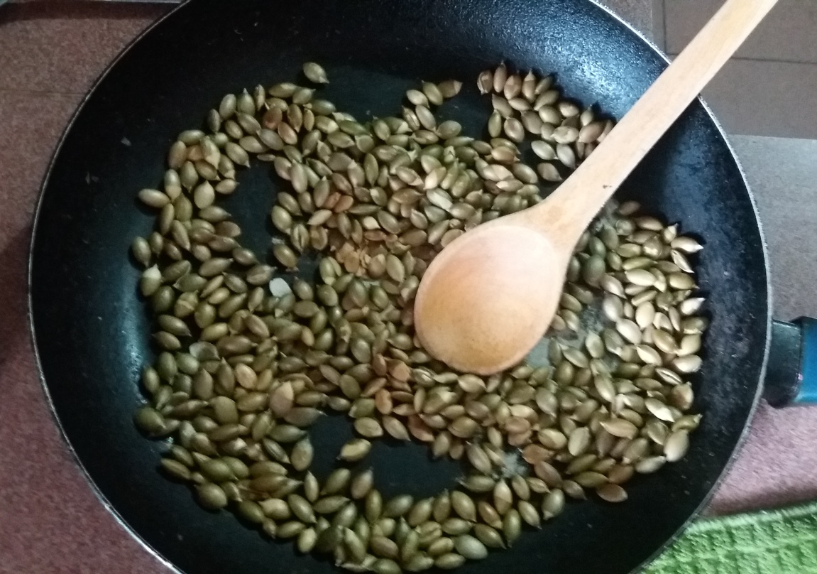 Pepa de sambo (seeds of Cucurbita ficifolia) toast. In Ecuador it is used in gastronomy.